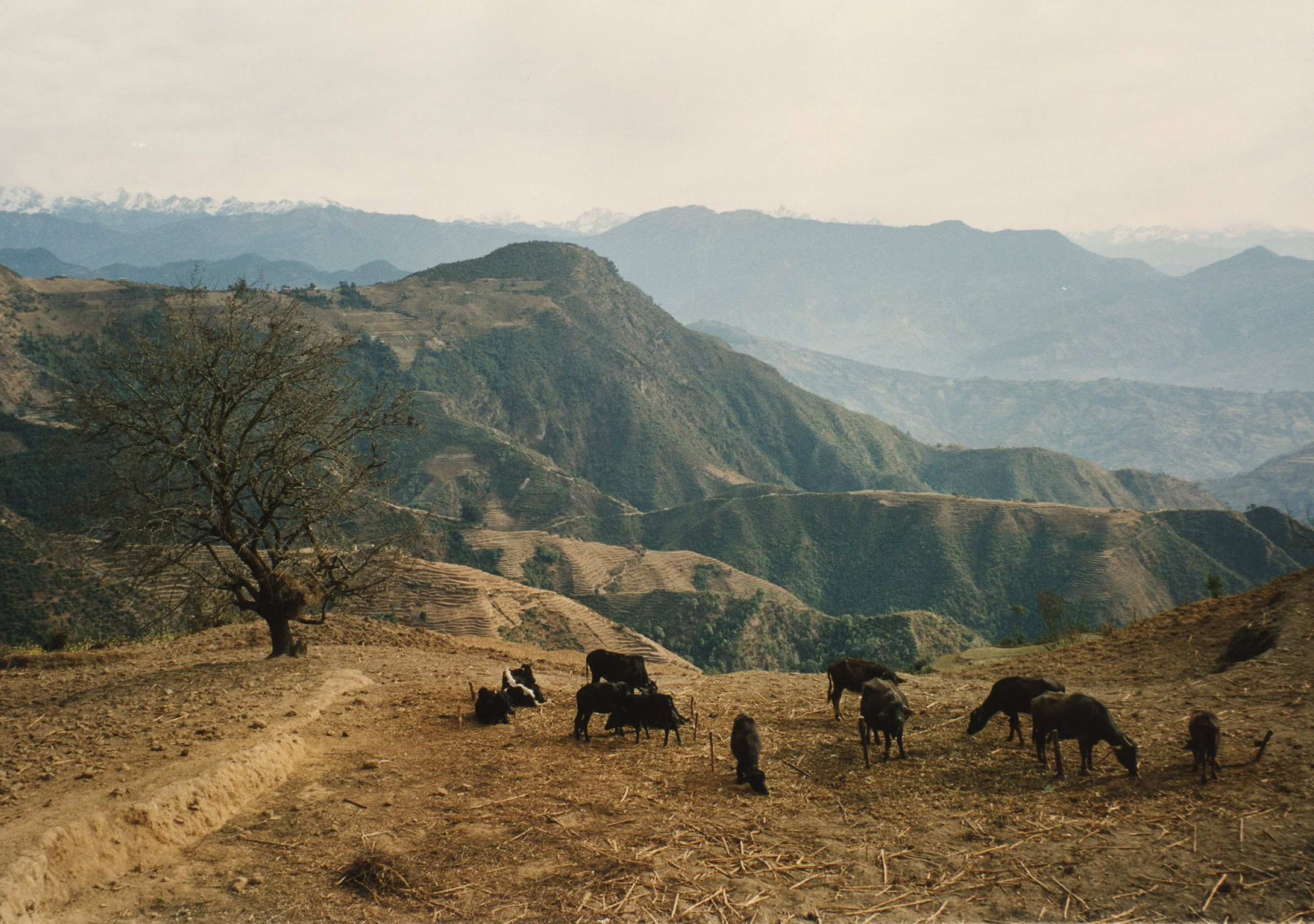 Landscape near Chipling (2150 m) on Helambu trek, Nepal